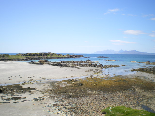 Kilmory Beach, looking out to Rum